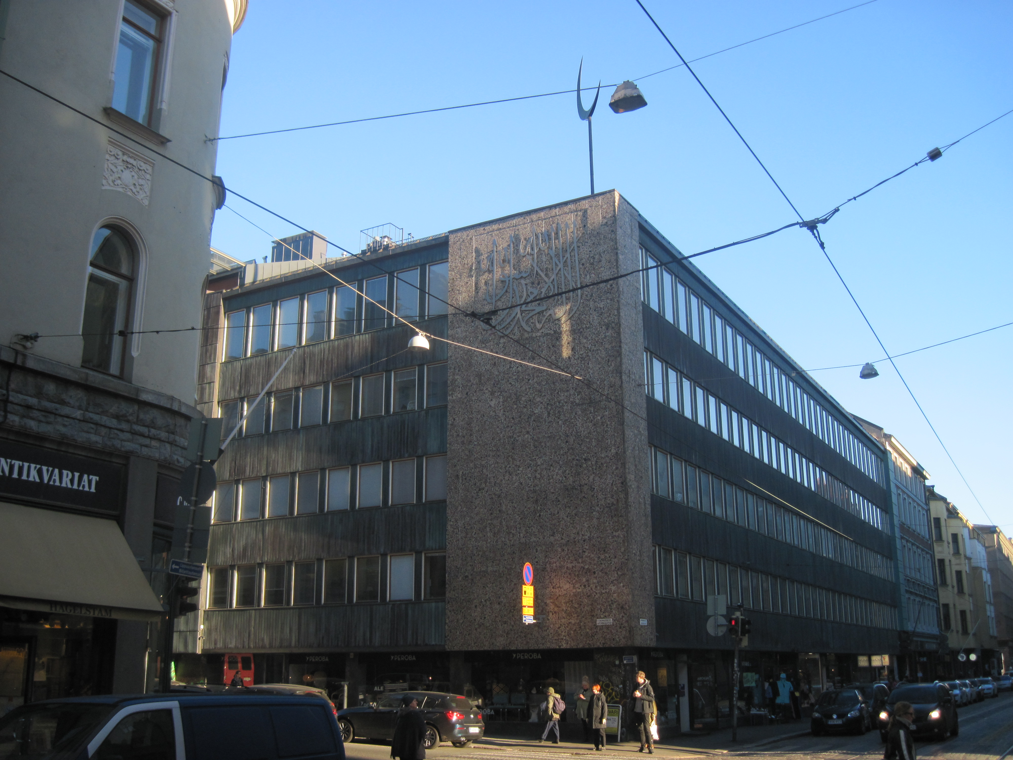 House of a muslim community (Finlandiya Islam Cemaati) in Helsinki